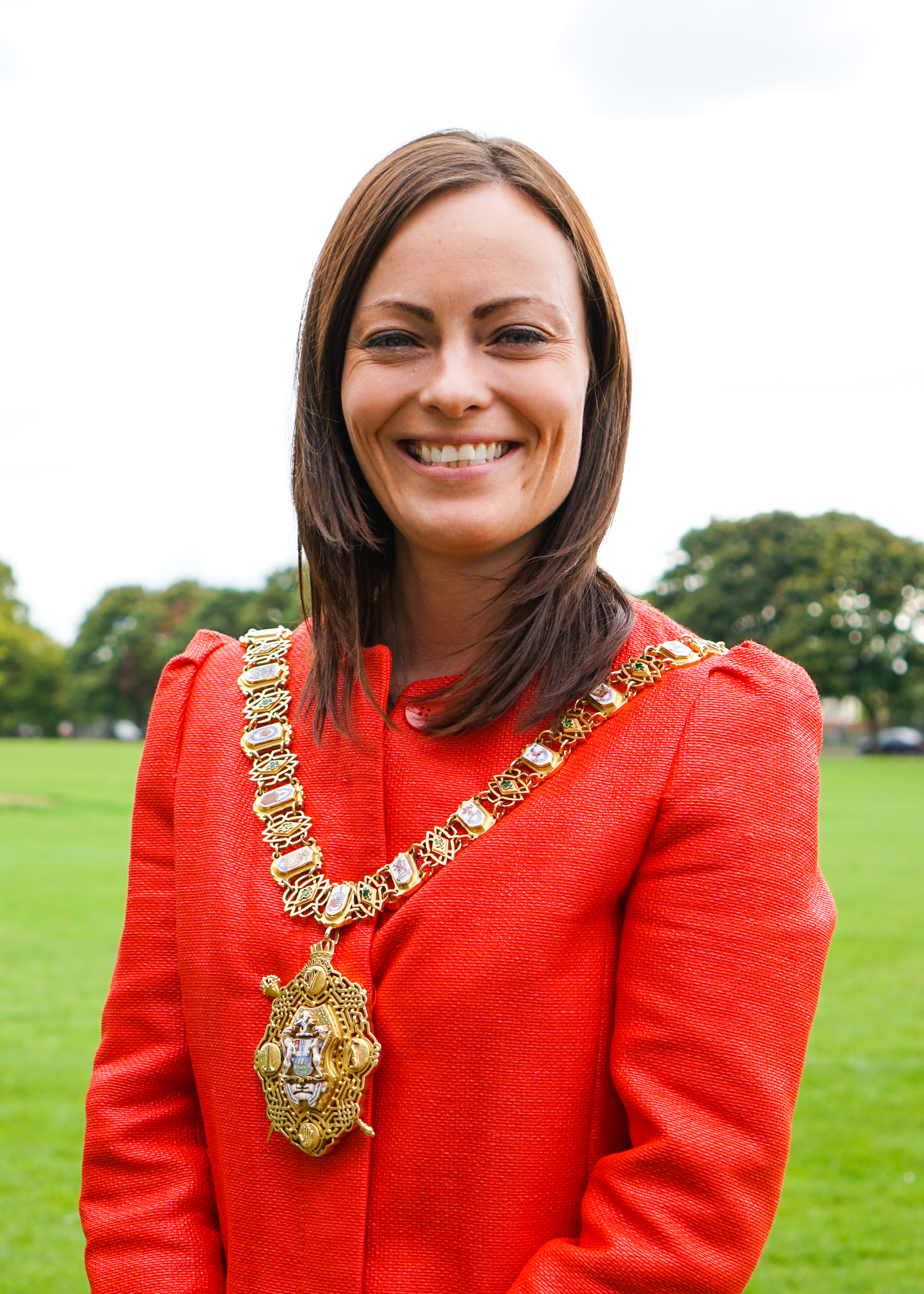 SDLP Lord Mayor of Belfast